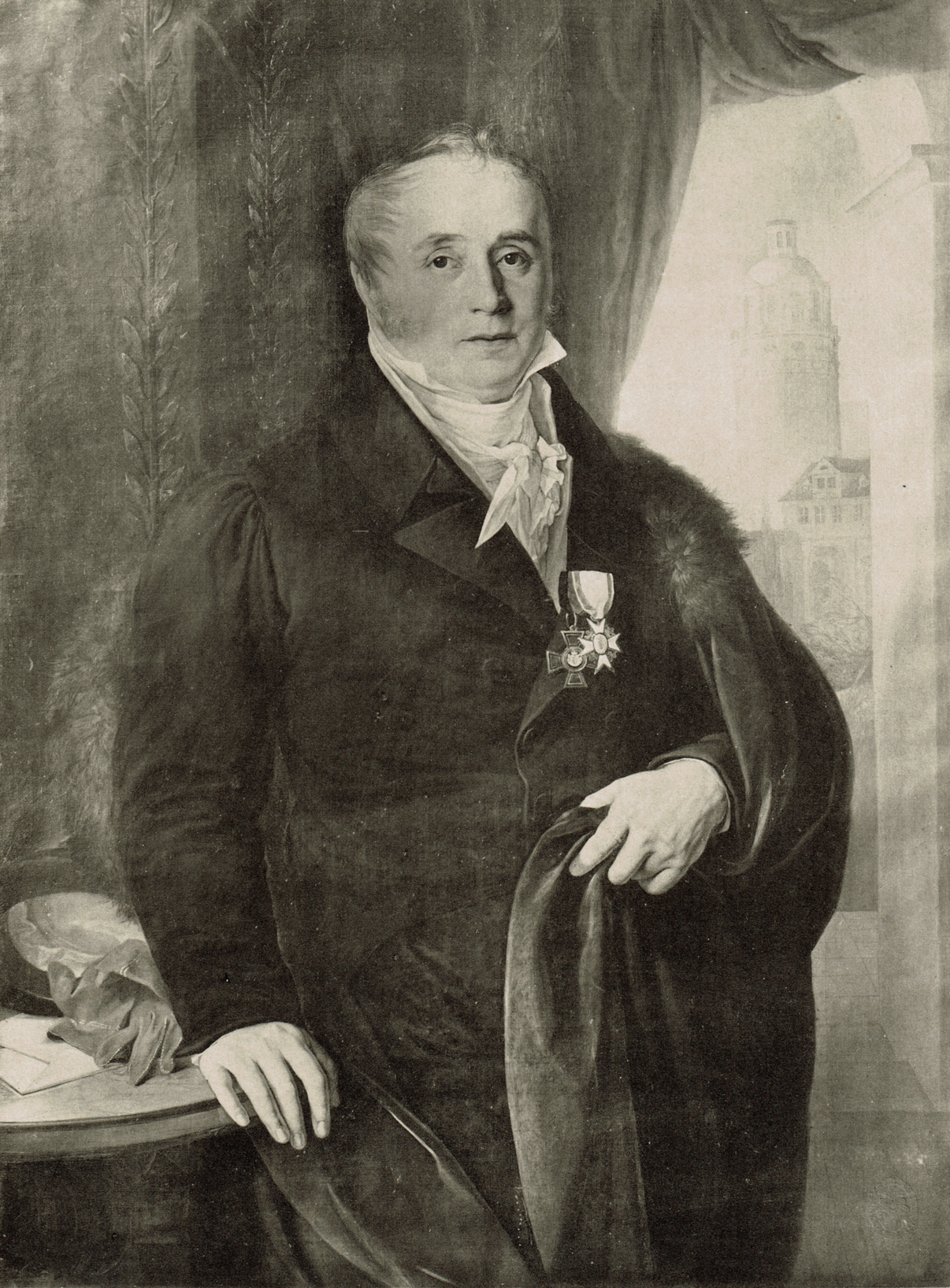 Johann Christian August Clarus, around 1830 (Painting from Friedrich Matthäi)